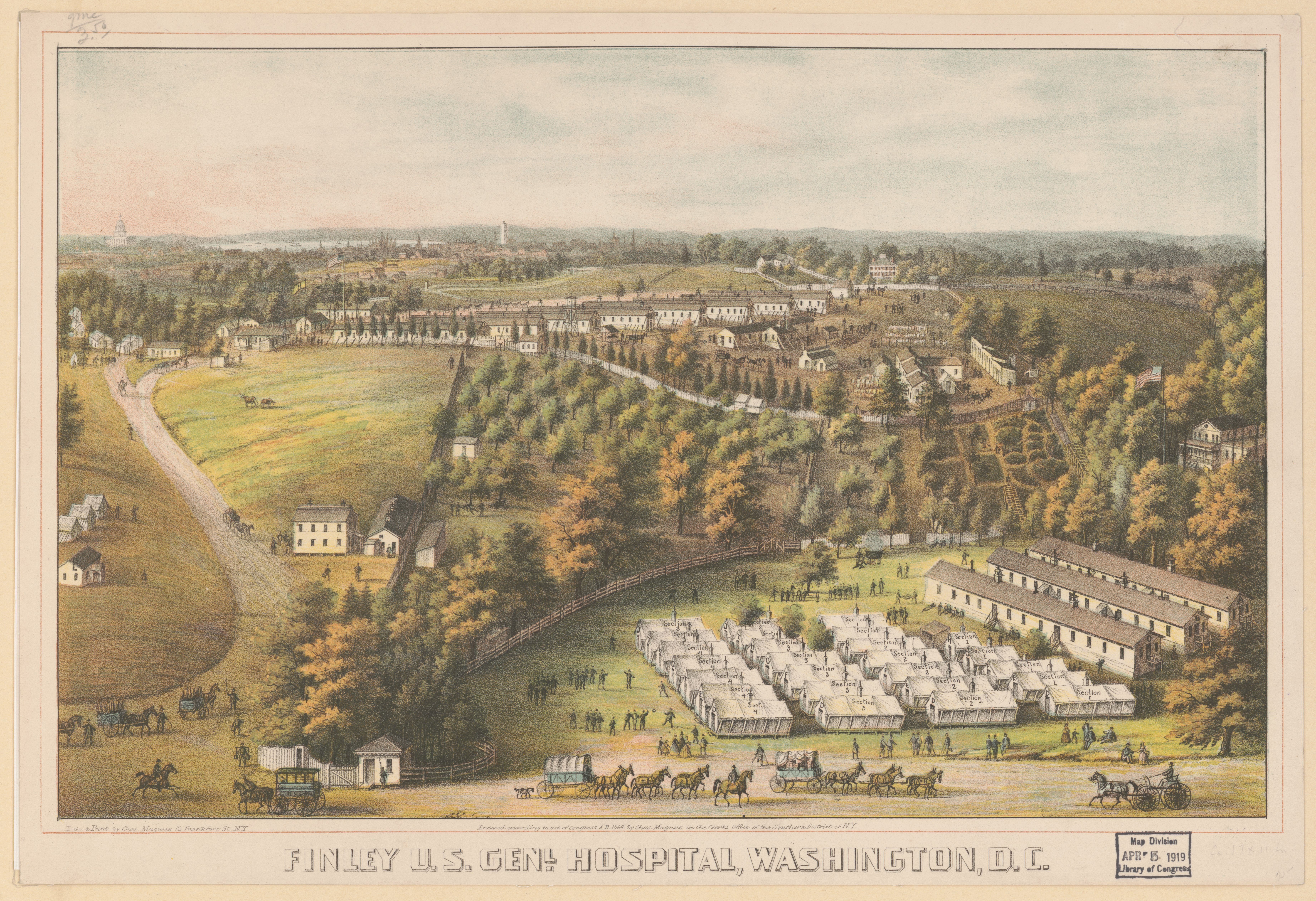 Title: Finley U.S. Gen'l. Hospital, Washington, D.C. / lith. and print by Chas. Magnus, 12 Frankfort St. , NY. Abstract/medium: 1 print : lithograph, hand-colored ; sheet 31 x 46 cm.